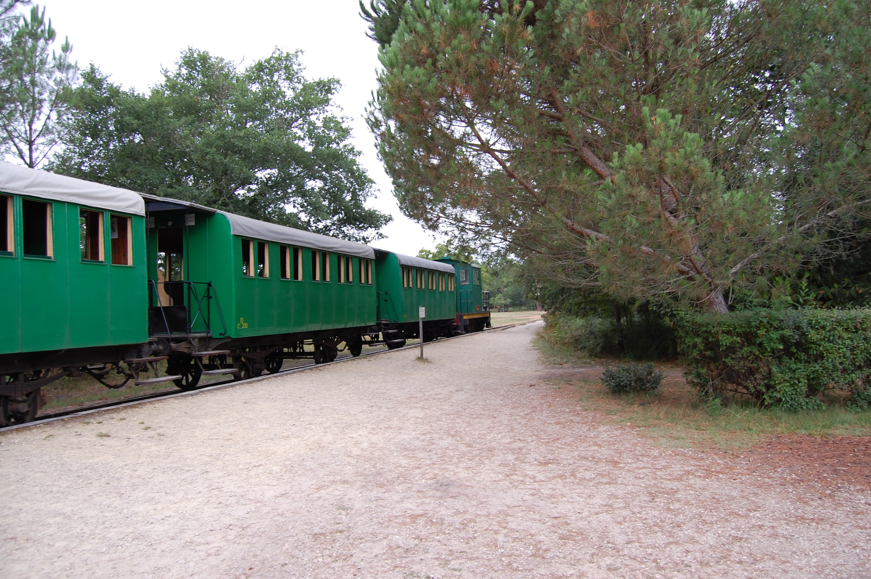 Train Sabre - Marquèze